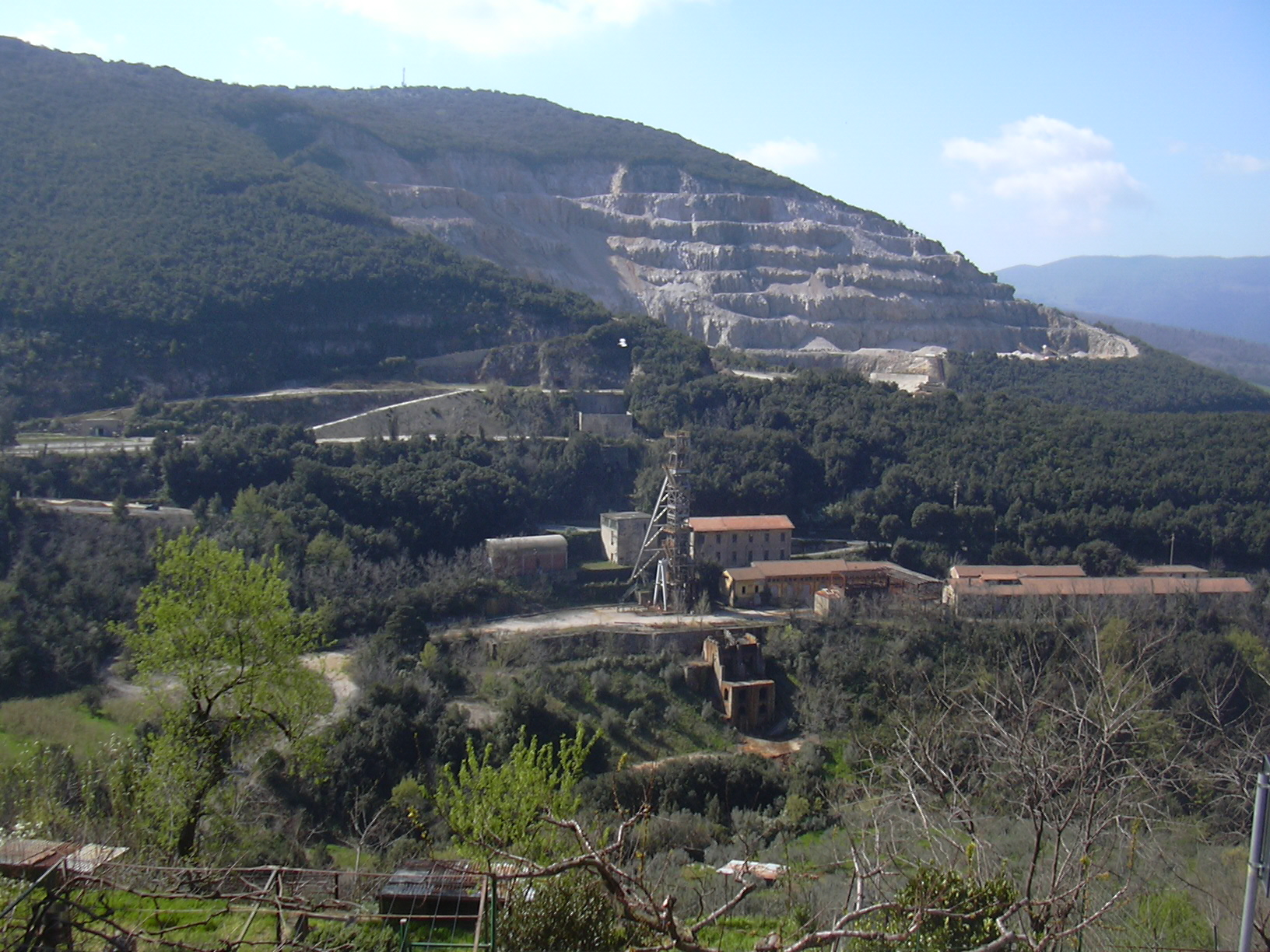 Gavorrano/Tuscany, Mines (abandonned)